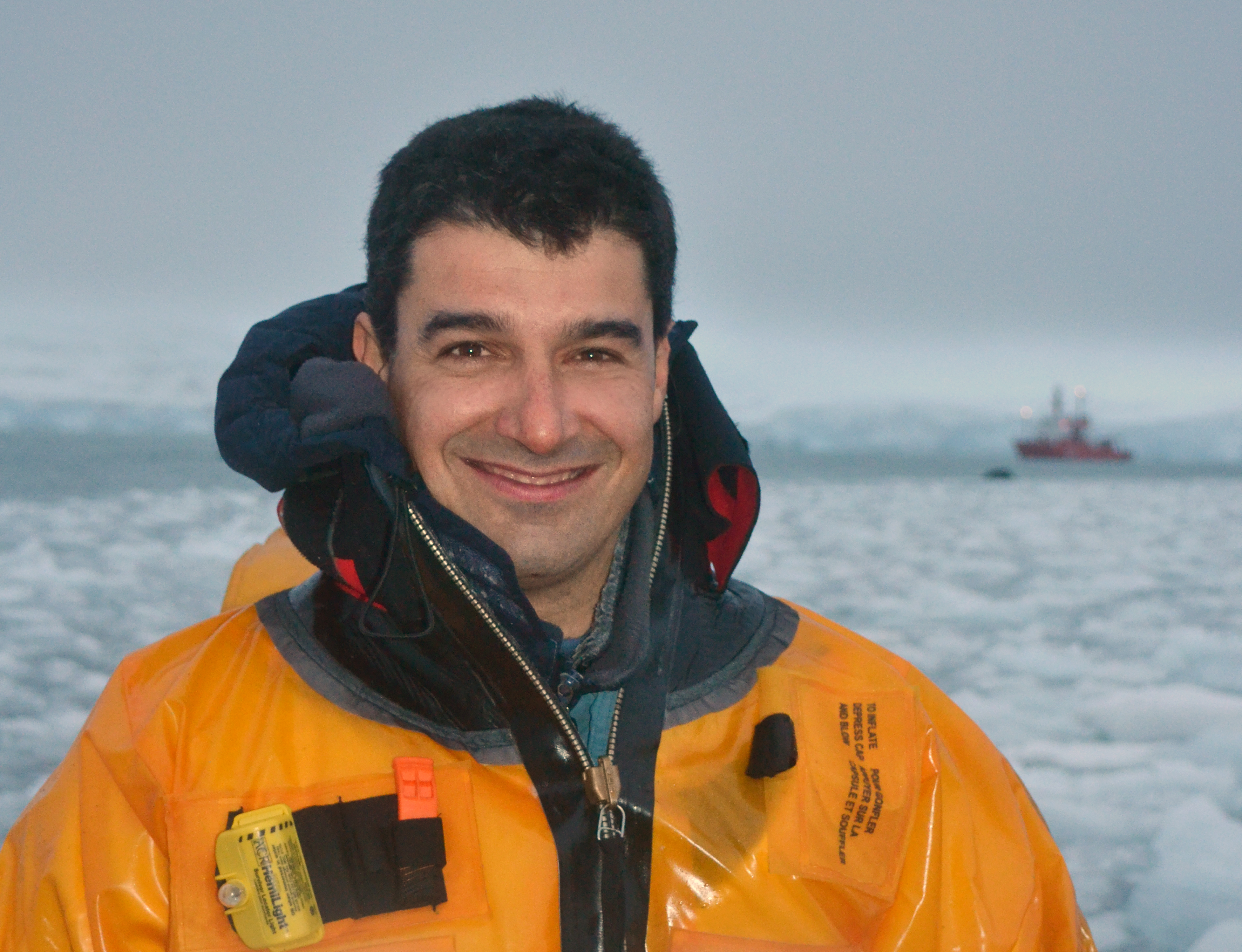 Jose Xavier workshop in Antarctic